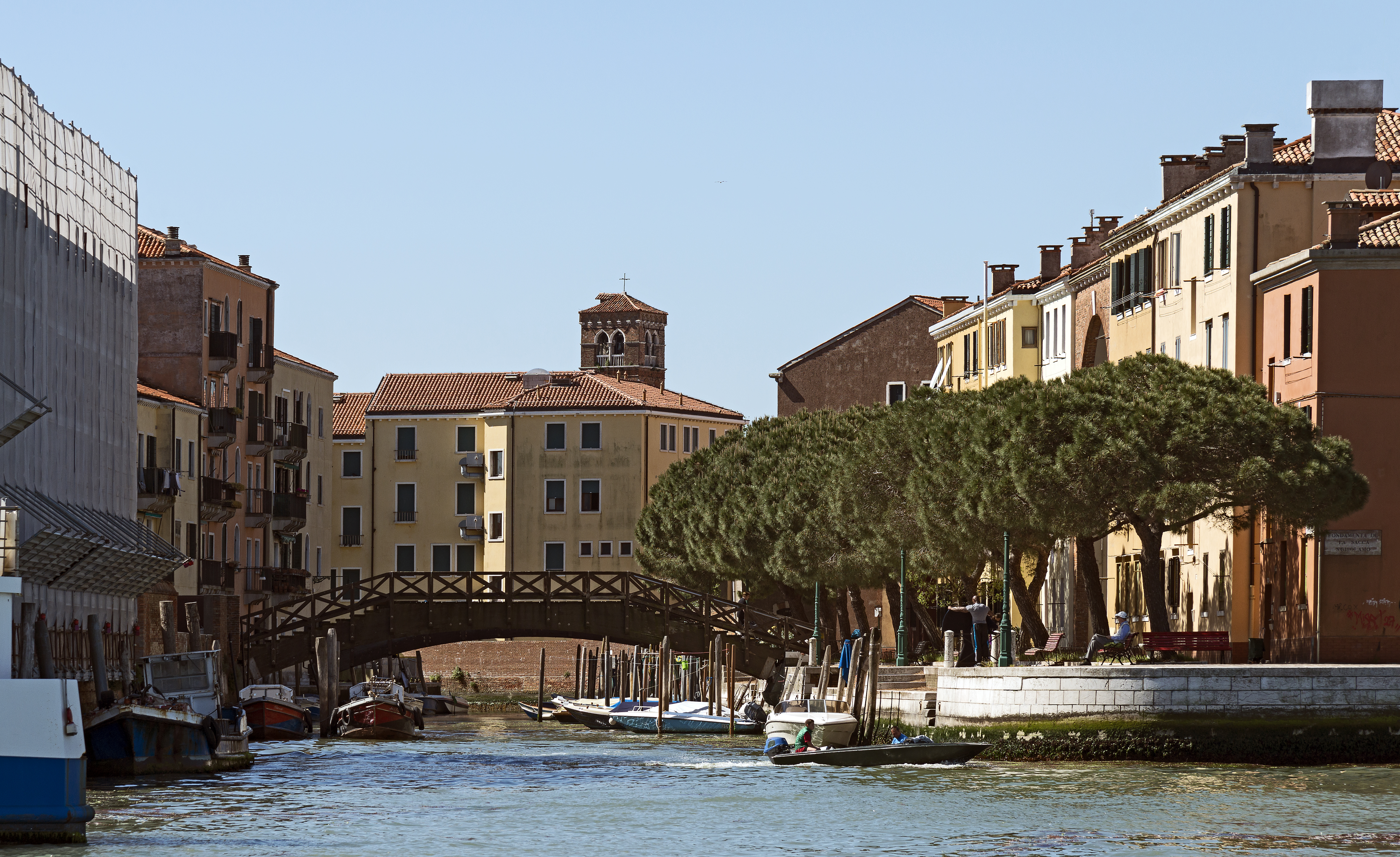 Rio del Battello-Ca' Moro to Venice. The rio seen from the lagoon.